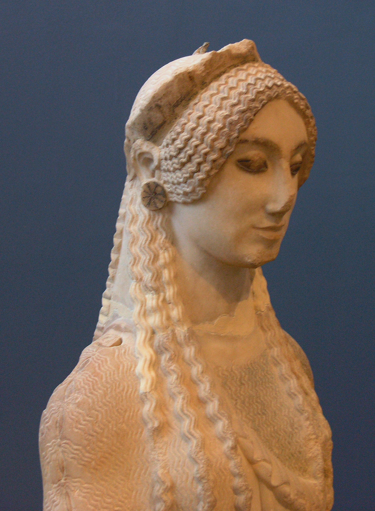 Kore in marble from Paros. ca. 500 BC